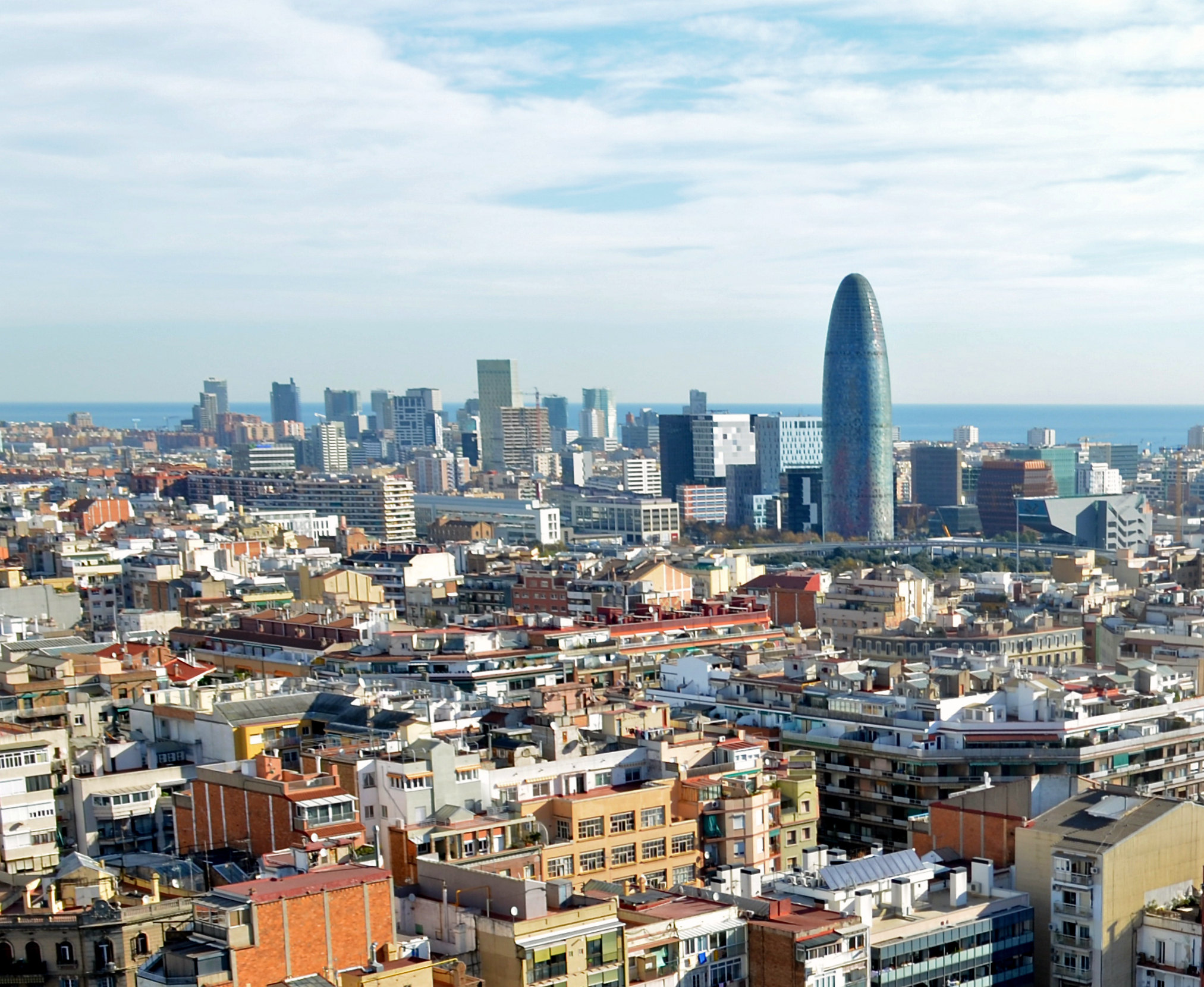 View on Barcelona from Sagrada Familia.